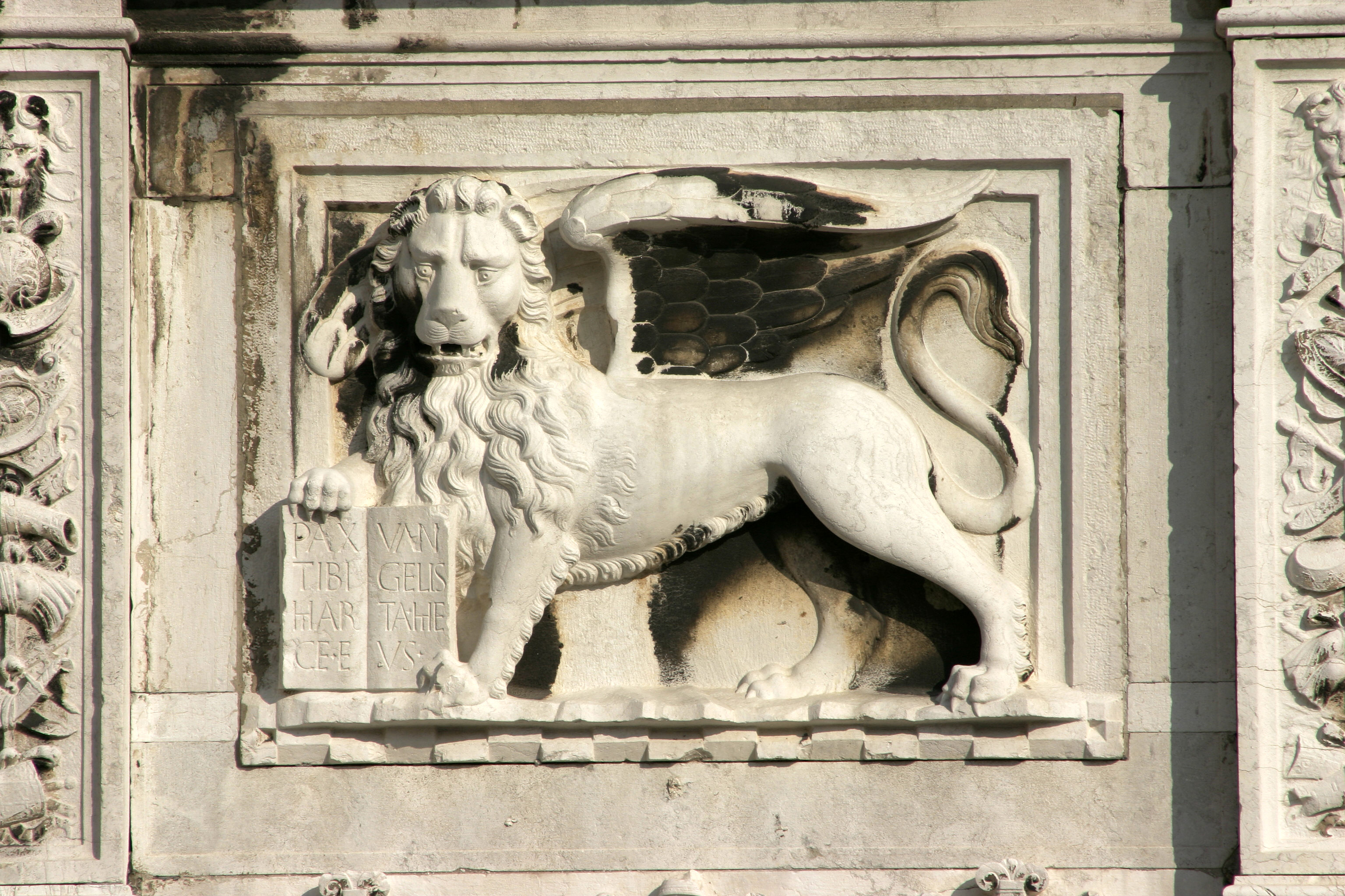 Venice – Winged lion